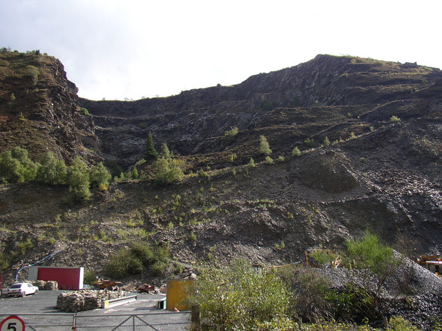 Chwarel Tyn y Coed Quarry. Was closed for many years, but now producing crushed shale, mostly for hardcore.